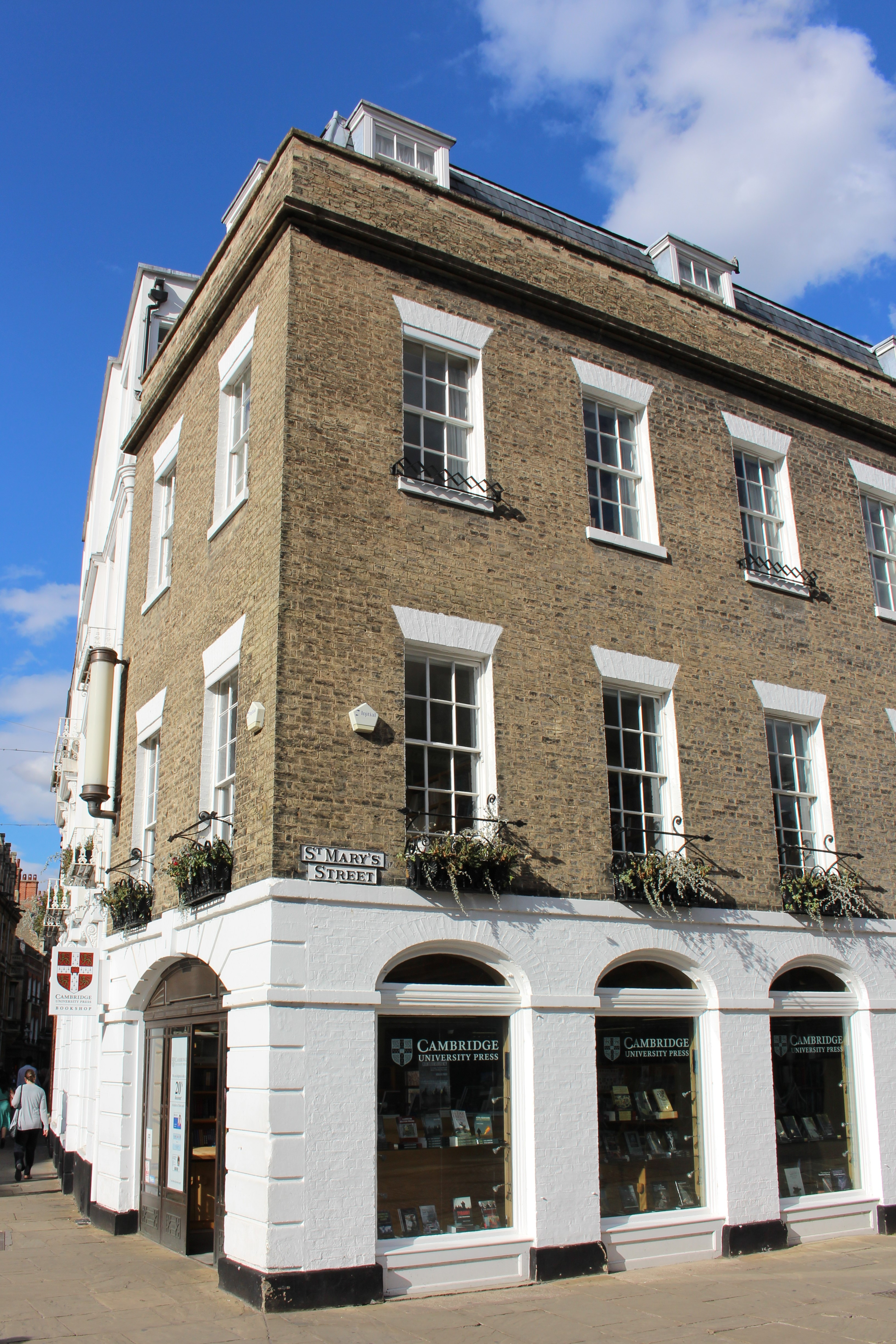 Cambridge_University_Press shop in the city centre